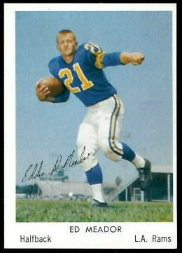 A 1959 promotional image of Los Angeles Rams player Ed Meador.